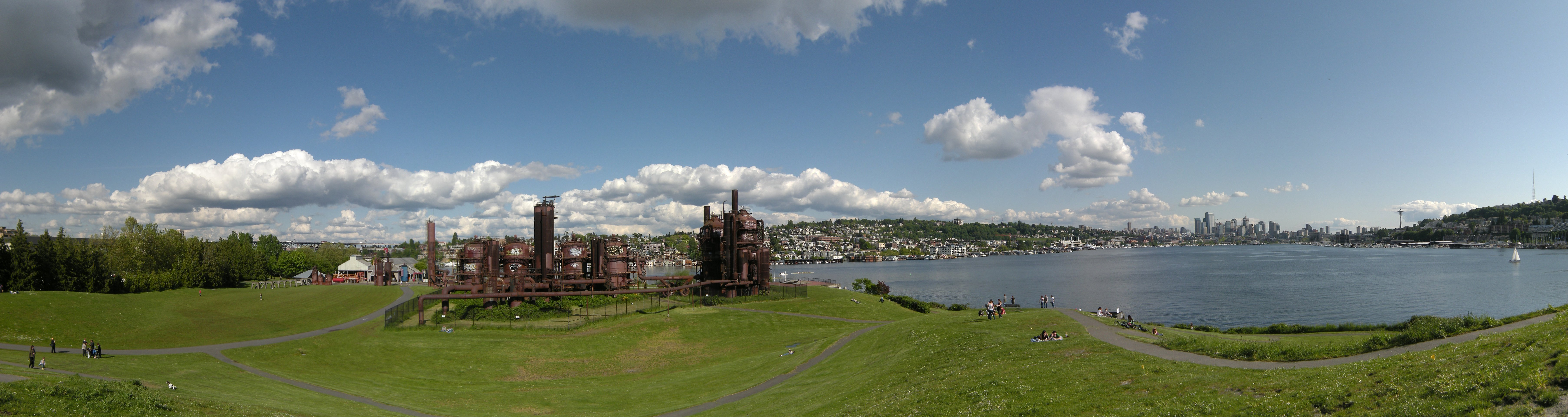 Panoramic view from Gas Works Park, Seattle, Washington, USA. Shows (from left to right) playfield, old rail piers (piers in the sense of holding up train tracks), play barn, portions of the old gas works including the "forbidden zone", Lake Union and behind the lake Capitol Hill, South Lake Union and Downtown Seattle, the Space Needle, and part of Queen Anne Hill. Created with Hugin from 9 photos. This image was created with Hugin